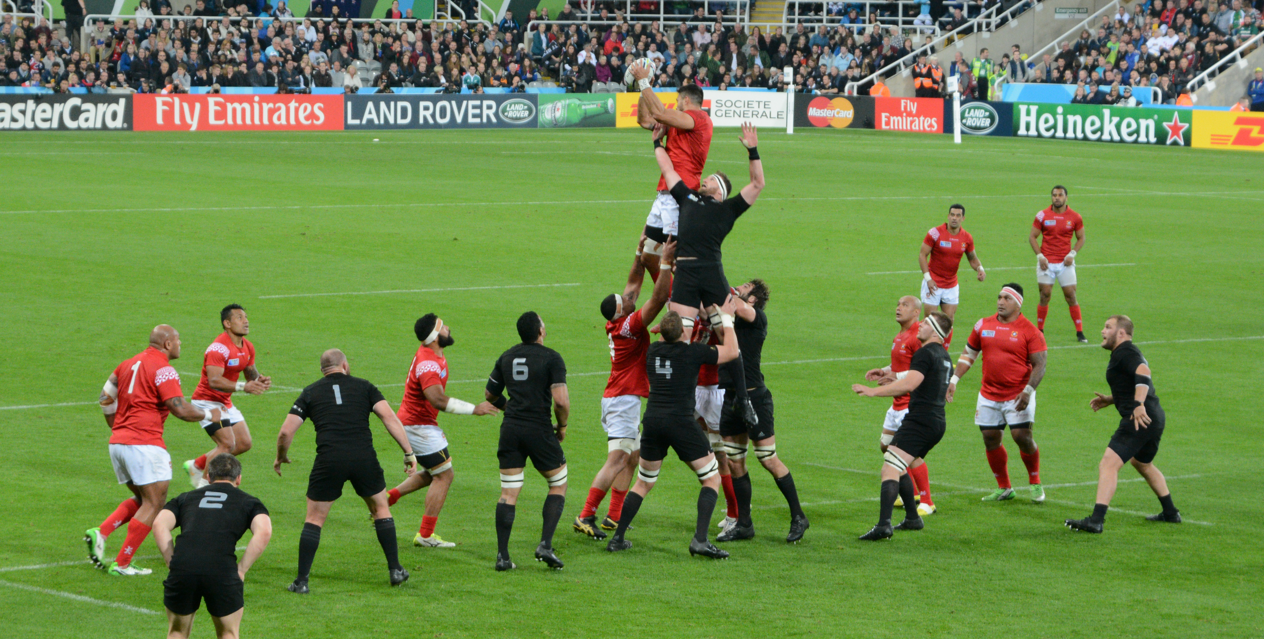 2015 Rugby World Cup match New Zealand vs Tonga at St. James’ Park, Newcastle upon Tyne.